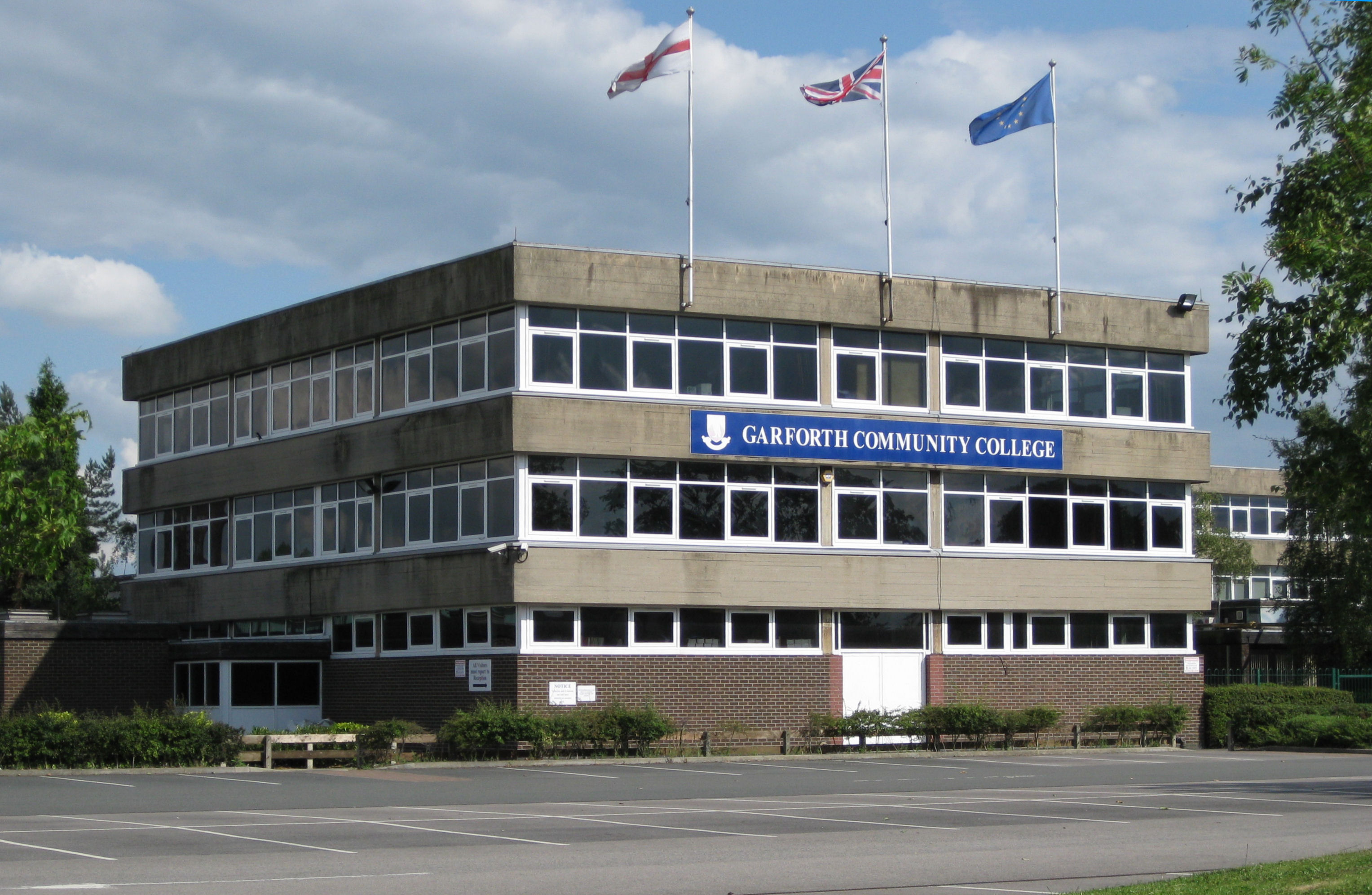 Garforth Community College, Lidgett Lane, Leeds, LS25 1LJ